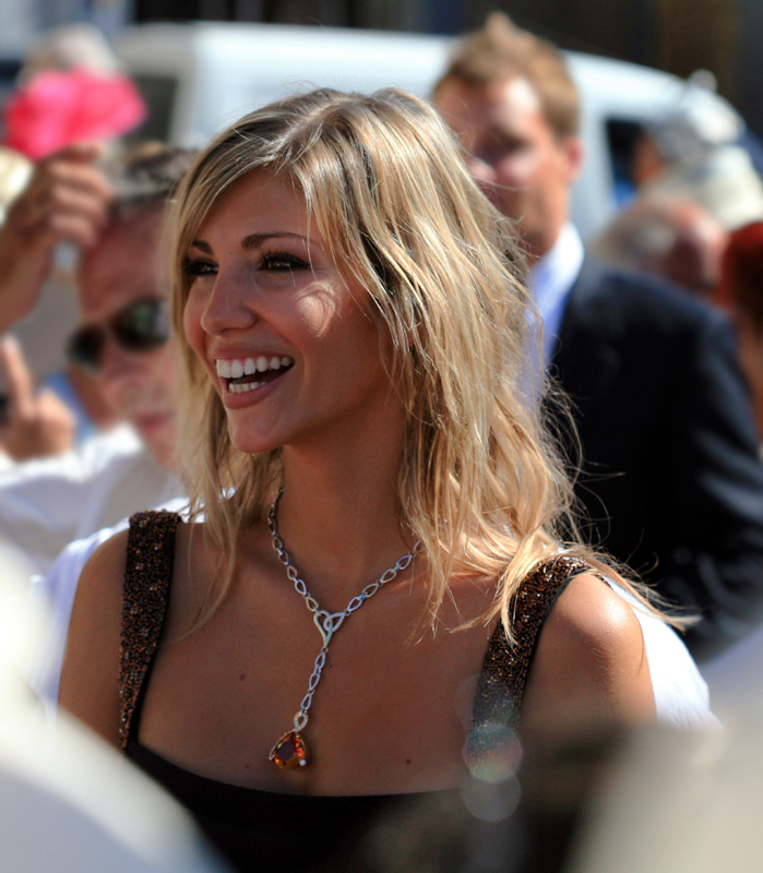 Alexandra Rosenfeld, Miss Europe 2007 in the village of Gordes, Vaucluse, France